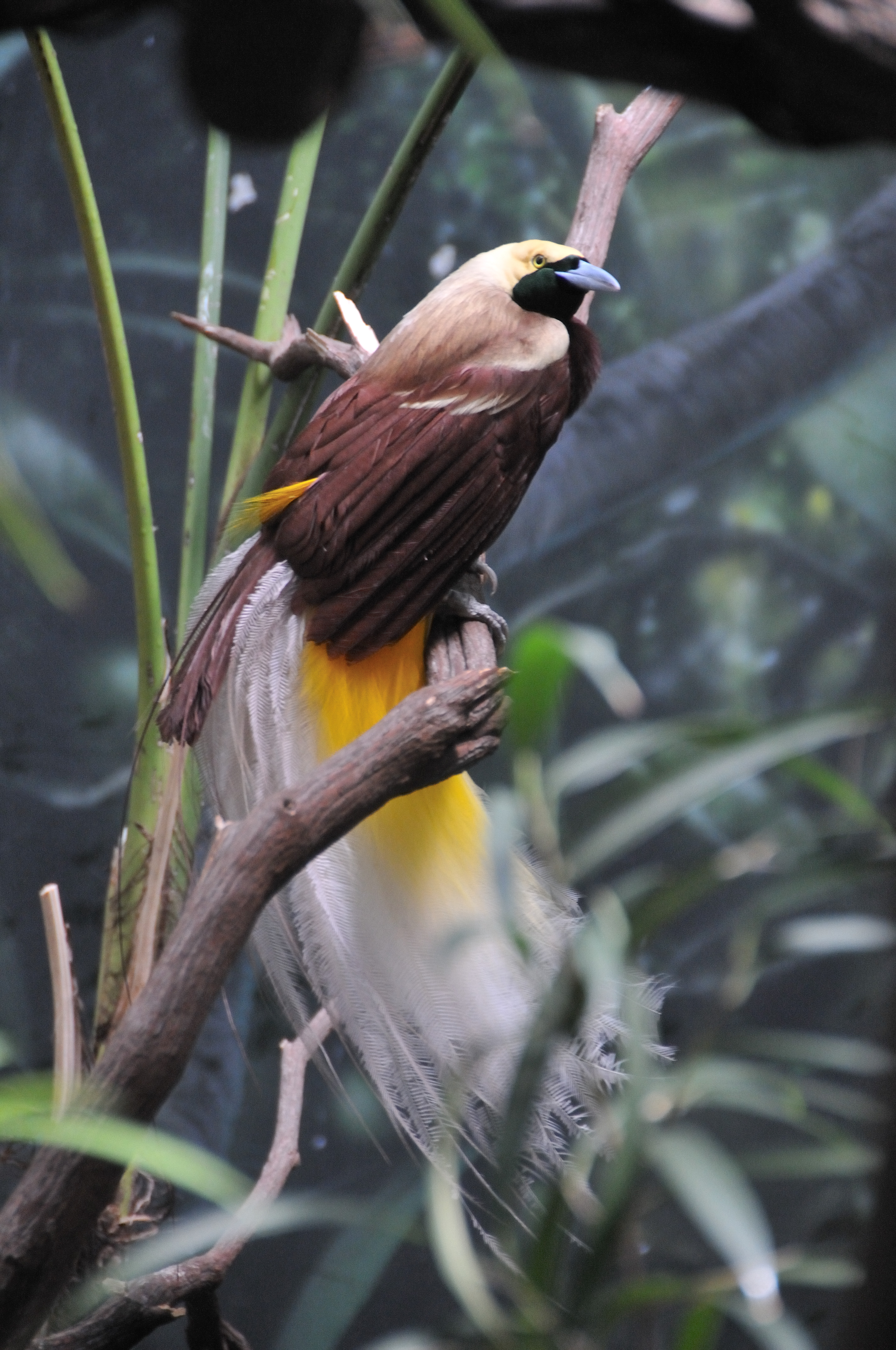 Lesser Bird of Paradise (Paradisaea minor) at Bronx Zoo, USA.